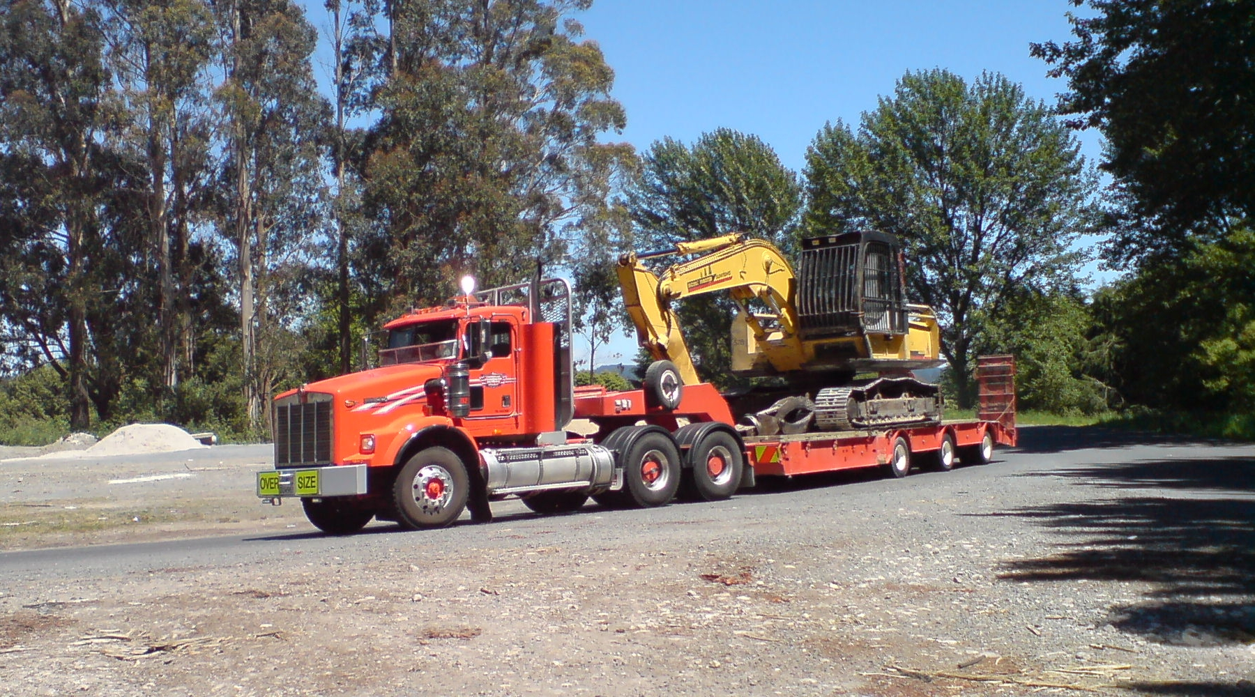 An excavator being transported on a flatbed truck near Tokoroa, New Zealand.